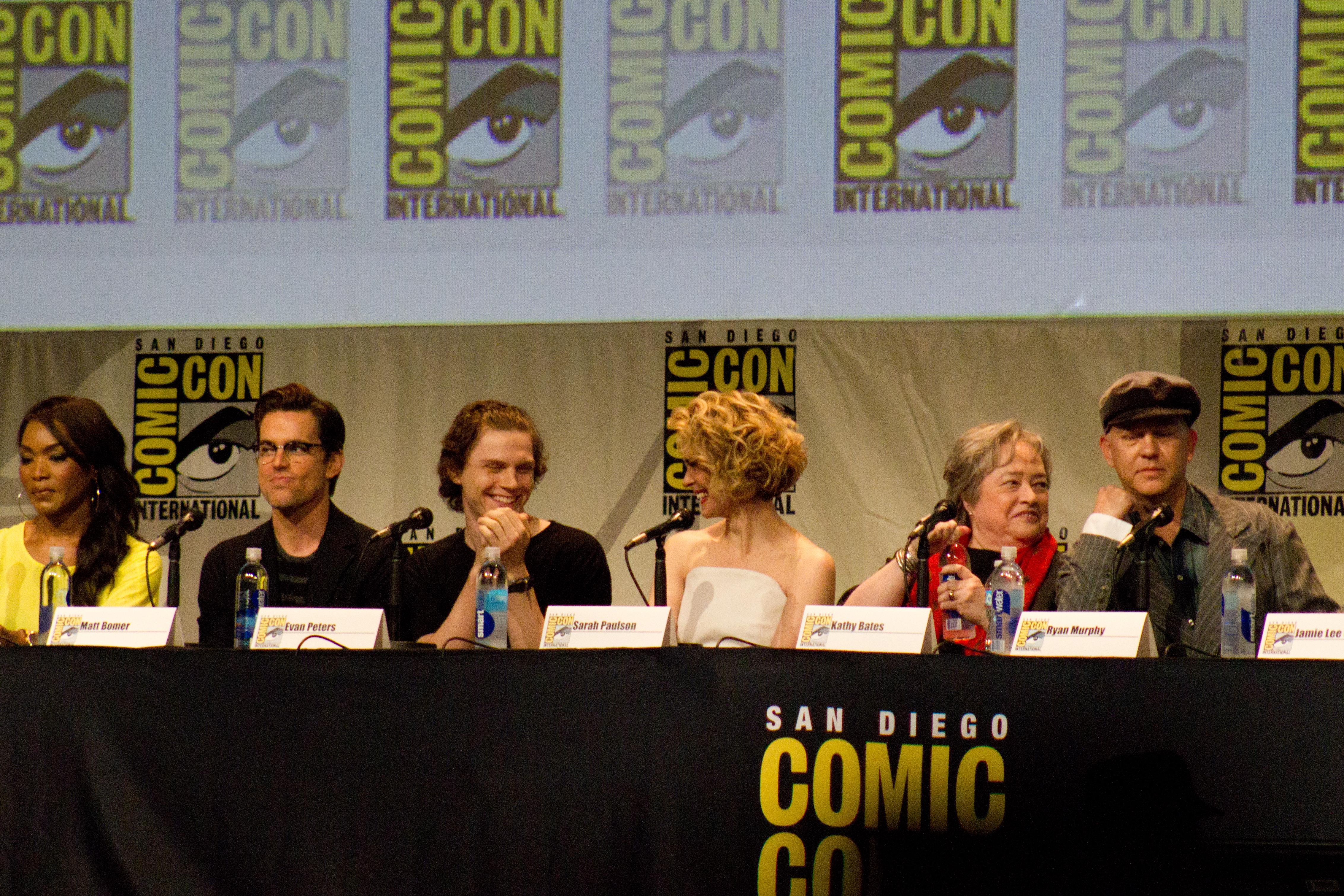 American Horror Story Taken at the 2015 Comic-Con International in San Diego.